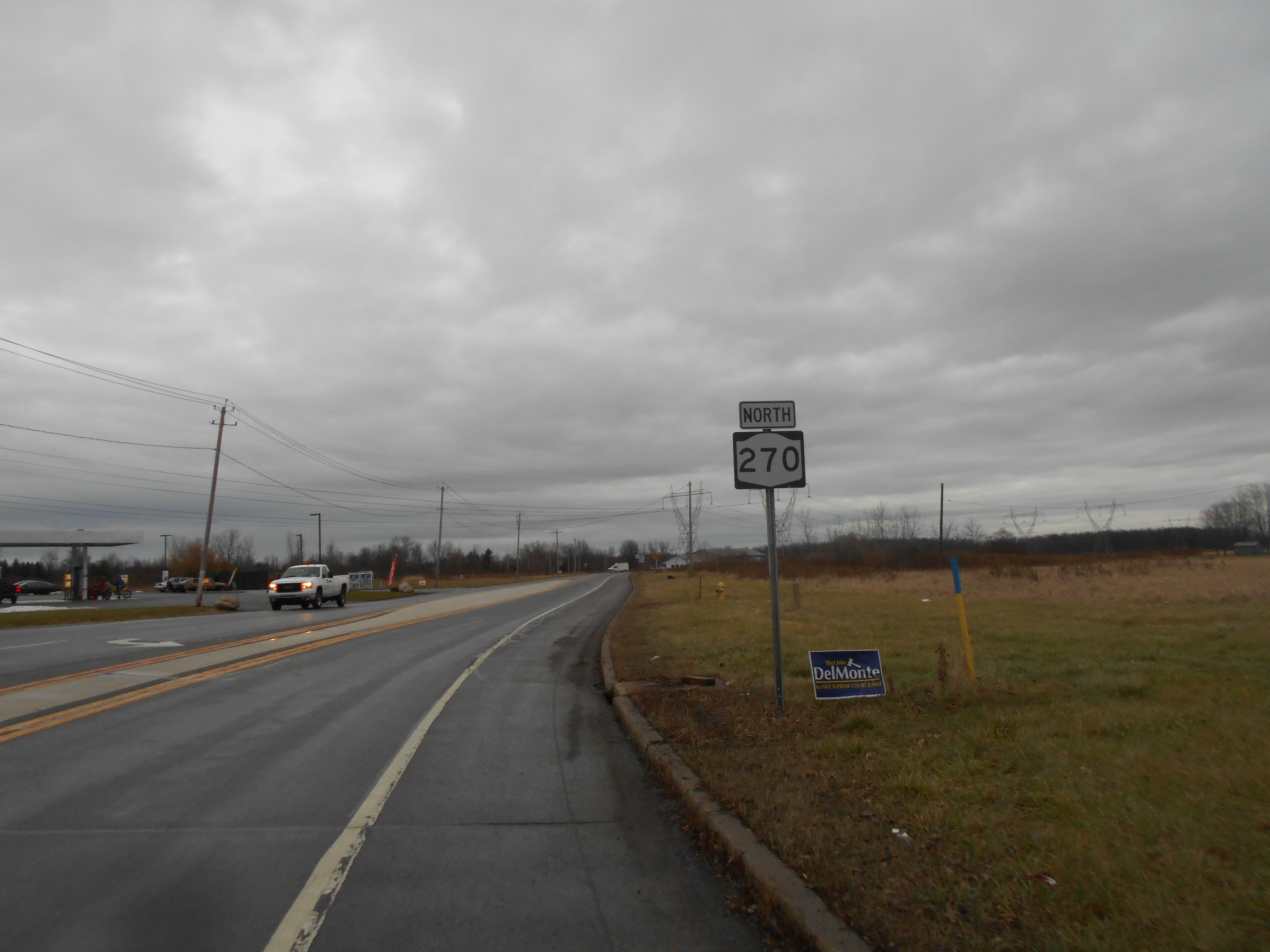 New York State Route 270 in Pendleton, New York.